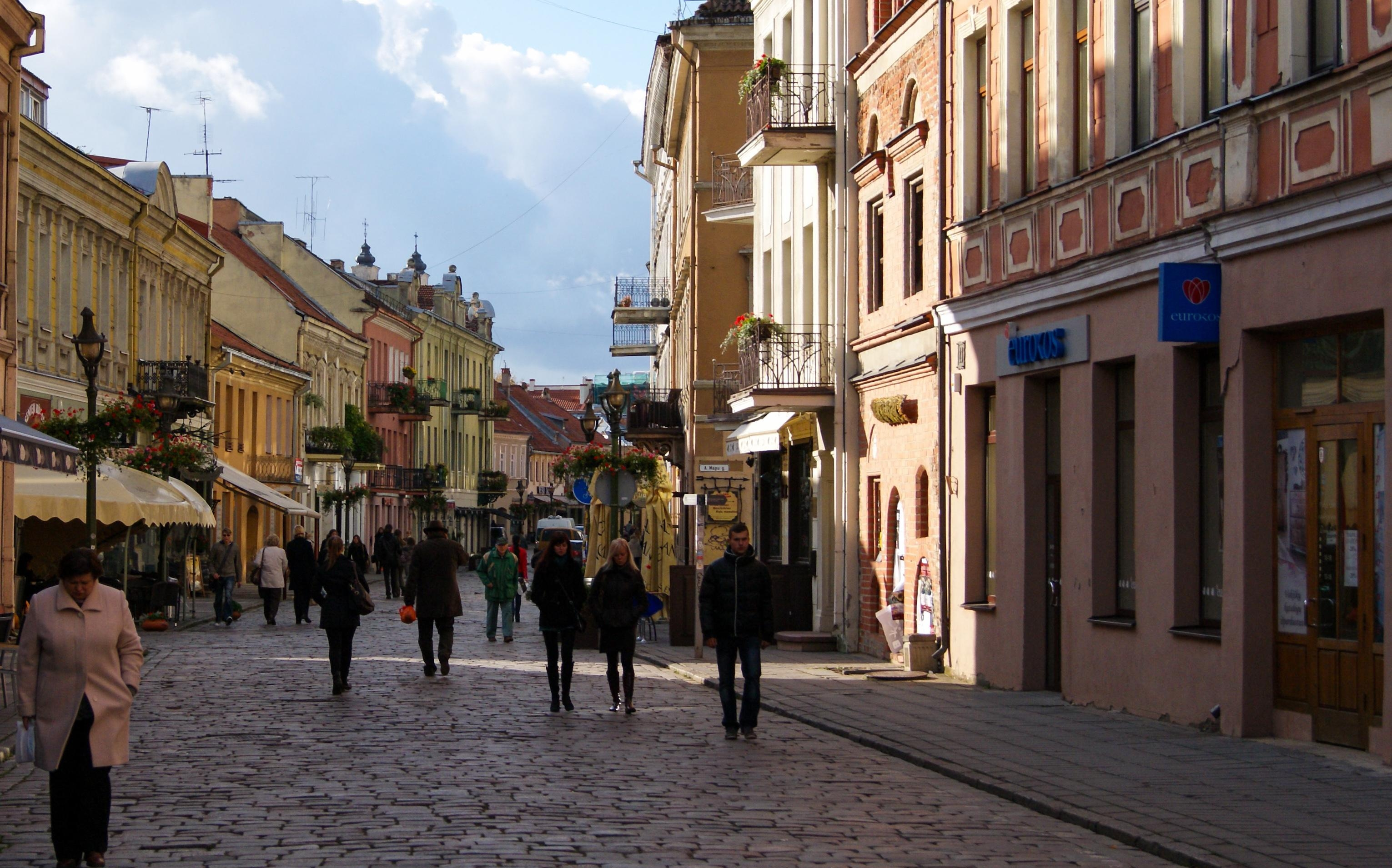 Old Town of Kaunas, Lithuania